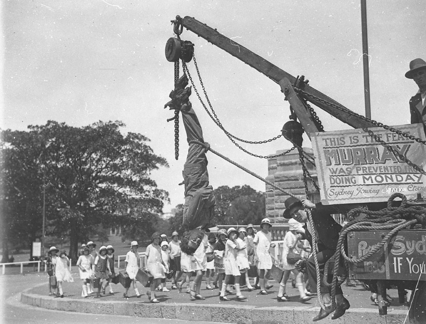 Murray, the escapologist, in a straight-jacket